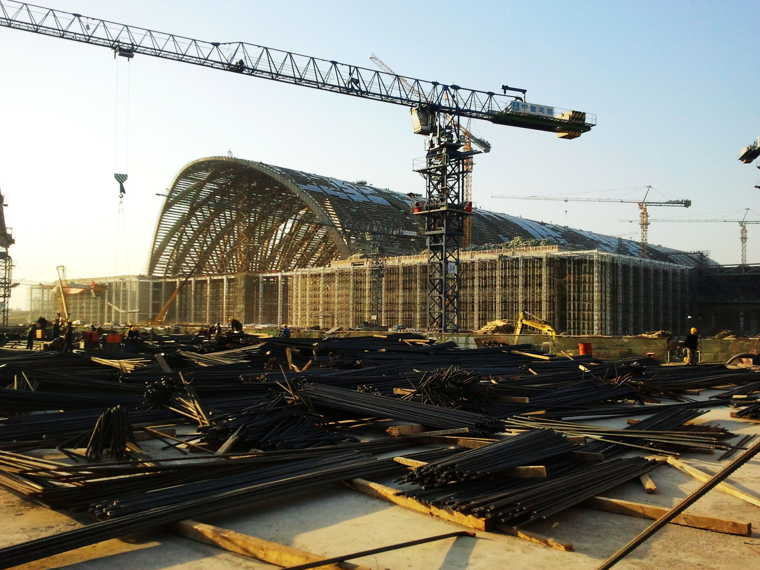 Tianjin West Railway Station